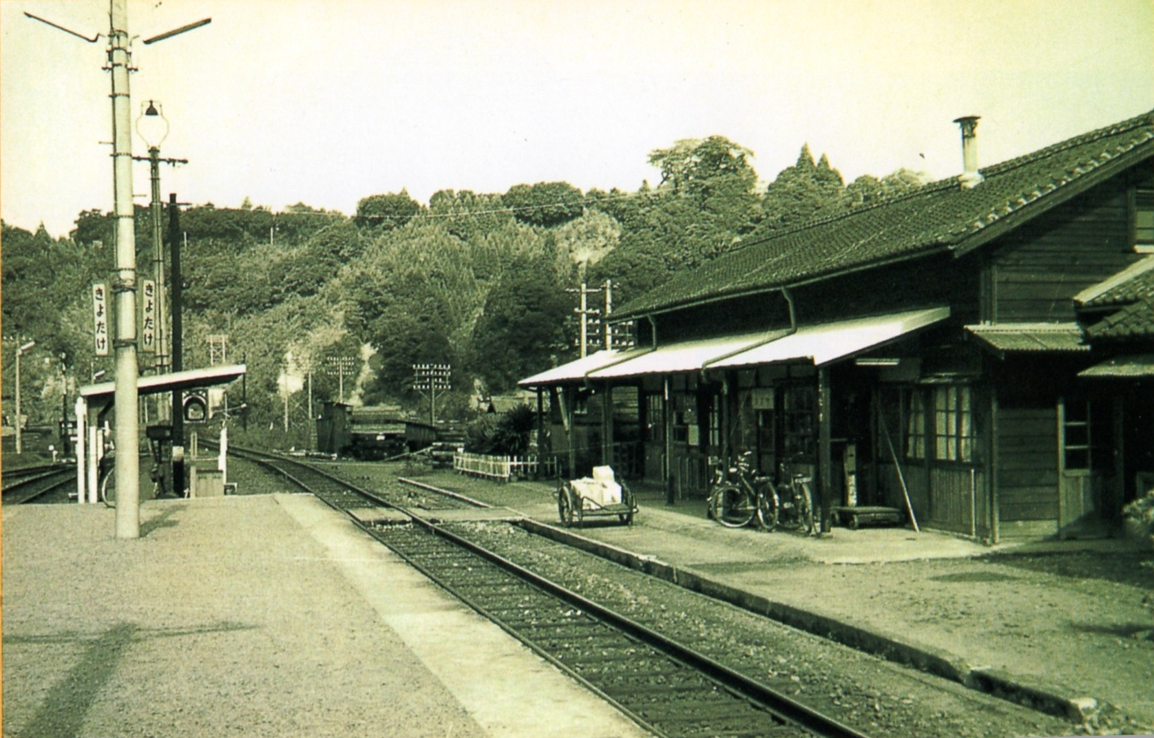 Kiyotake Station in 1925 (Miyazaki City, Japan)